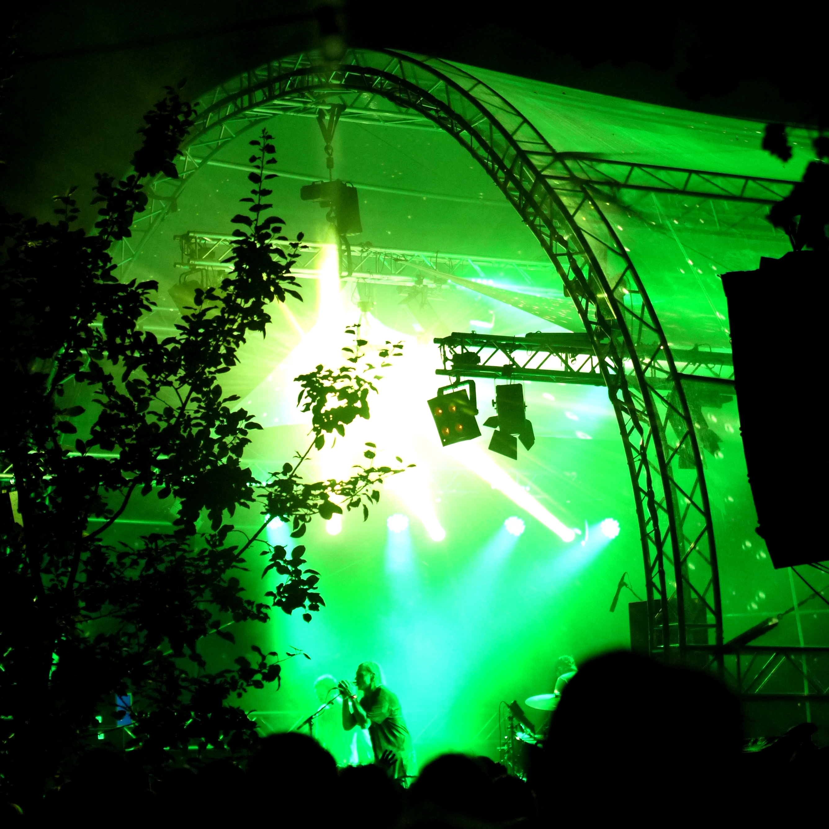 The Waldbühne of the Appletree Garden Festival 2013 in Diepholz, Germany.